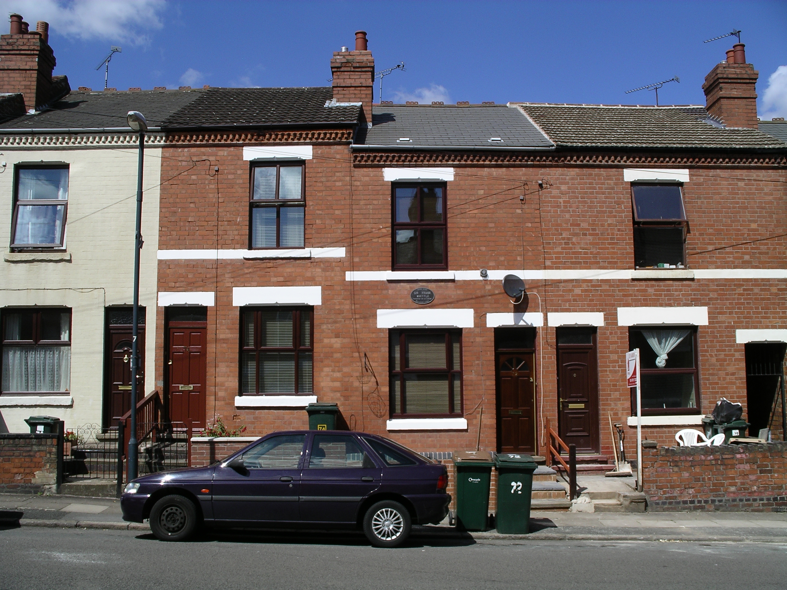 The house that Frank Whittle was born at and lived in. It is in Earlsdon, Coventry, England. It has a grey oval commemorative plaque on the front wall between the upper and lower windows.